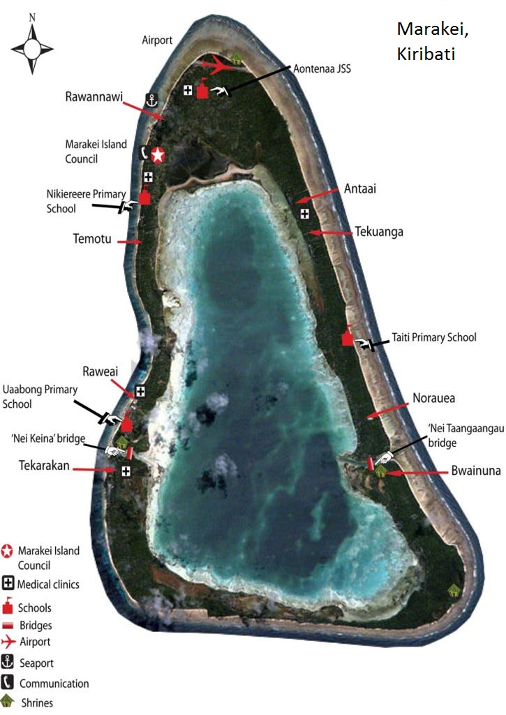 Astronaut photo of Marakei, Kiribati, with villages and main landmarks